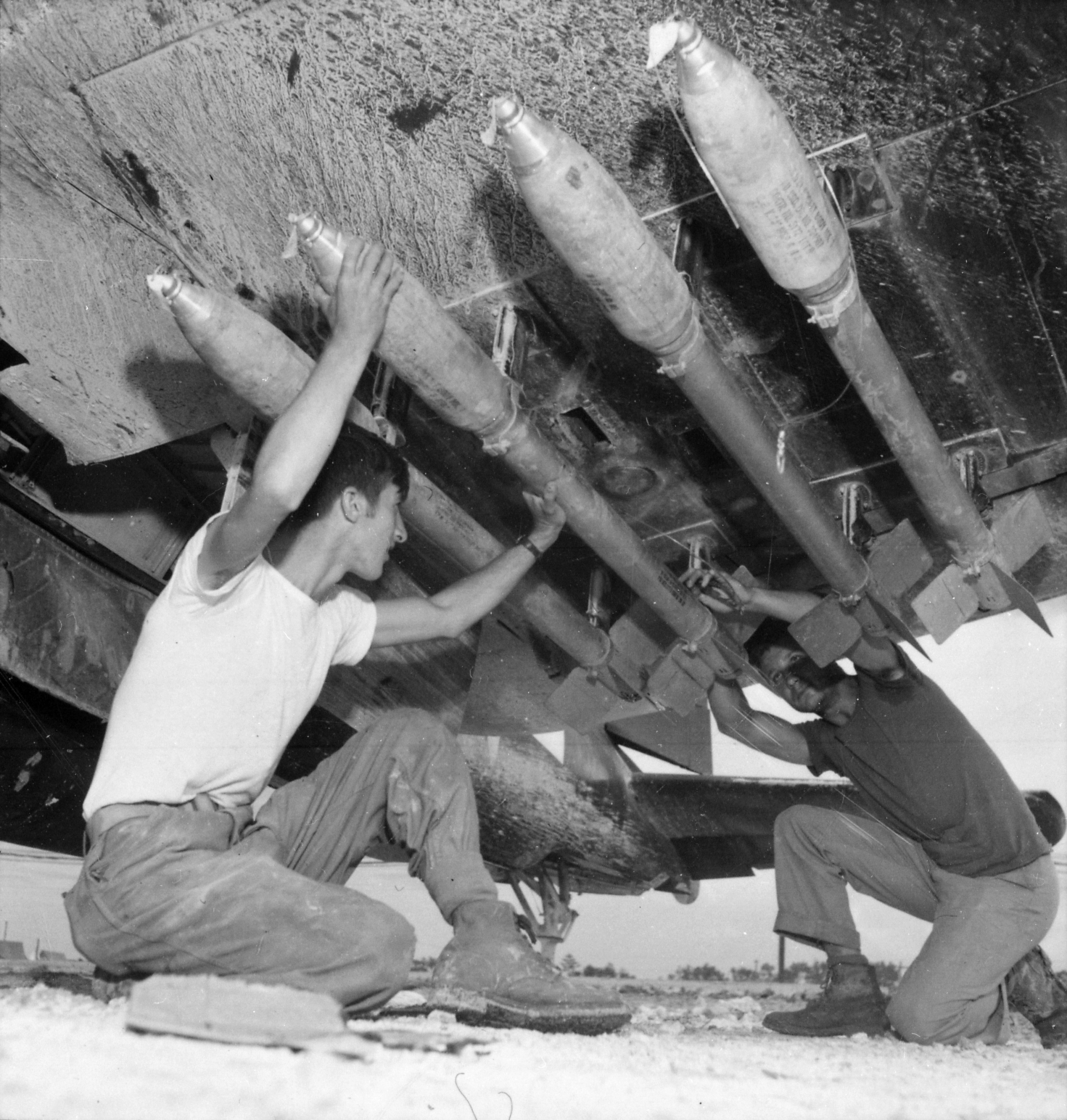 General notes: Use War and Conflict Number 839 when ordering a reproduction or requesting information about this image.